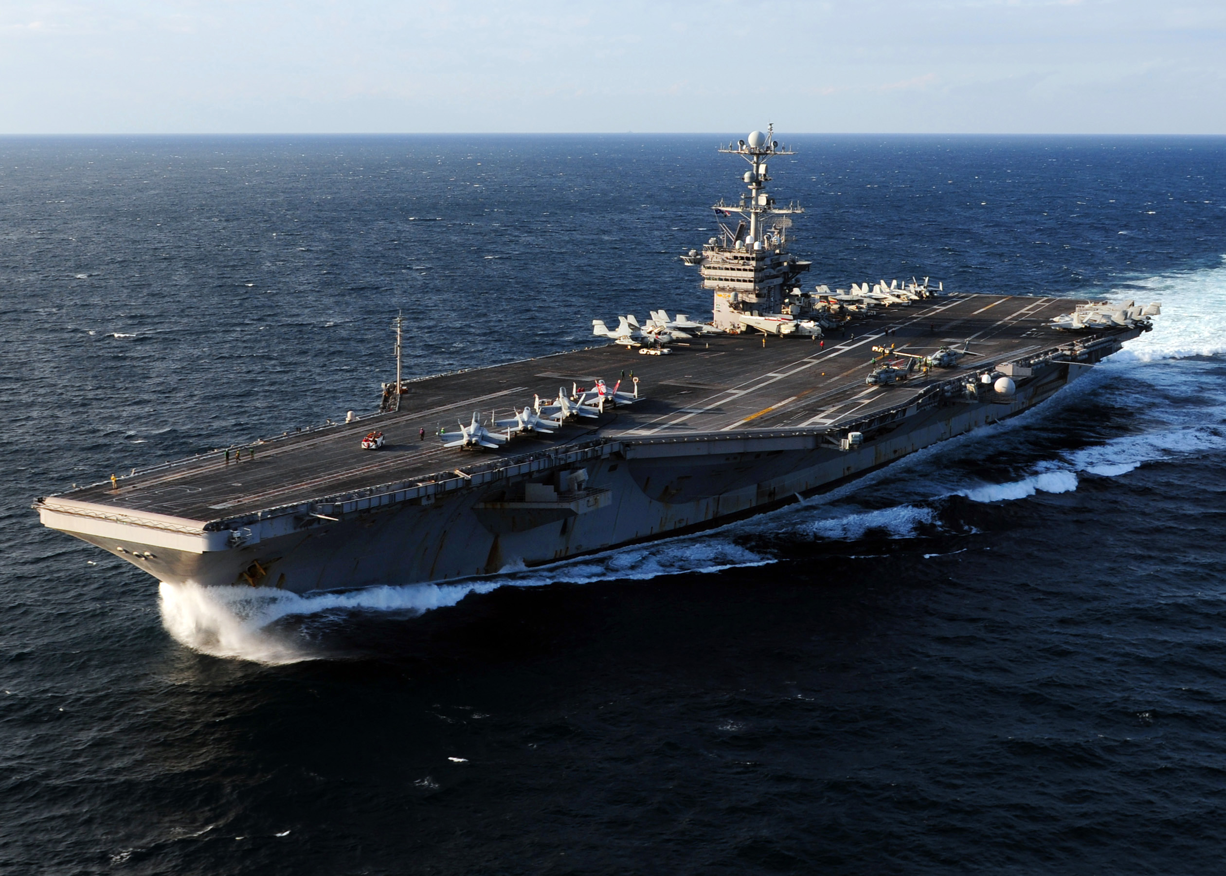 EAST CHINA SEA (Dec. 6, 2010) The aircraft carrier USS George Washington (CVN 73) transits the East China Sea. George Washington is participating in Keen Sword 2010 with the Japan Maritime Self-Defense Force through Dec. 10. (U.S. Navy photo by Mass Communication Specialist 3rd Class Casey H. Kyhl/Released)